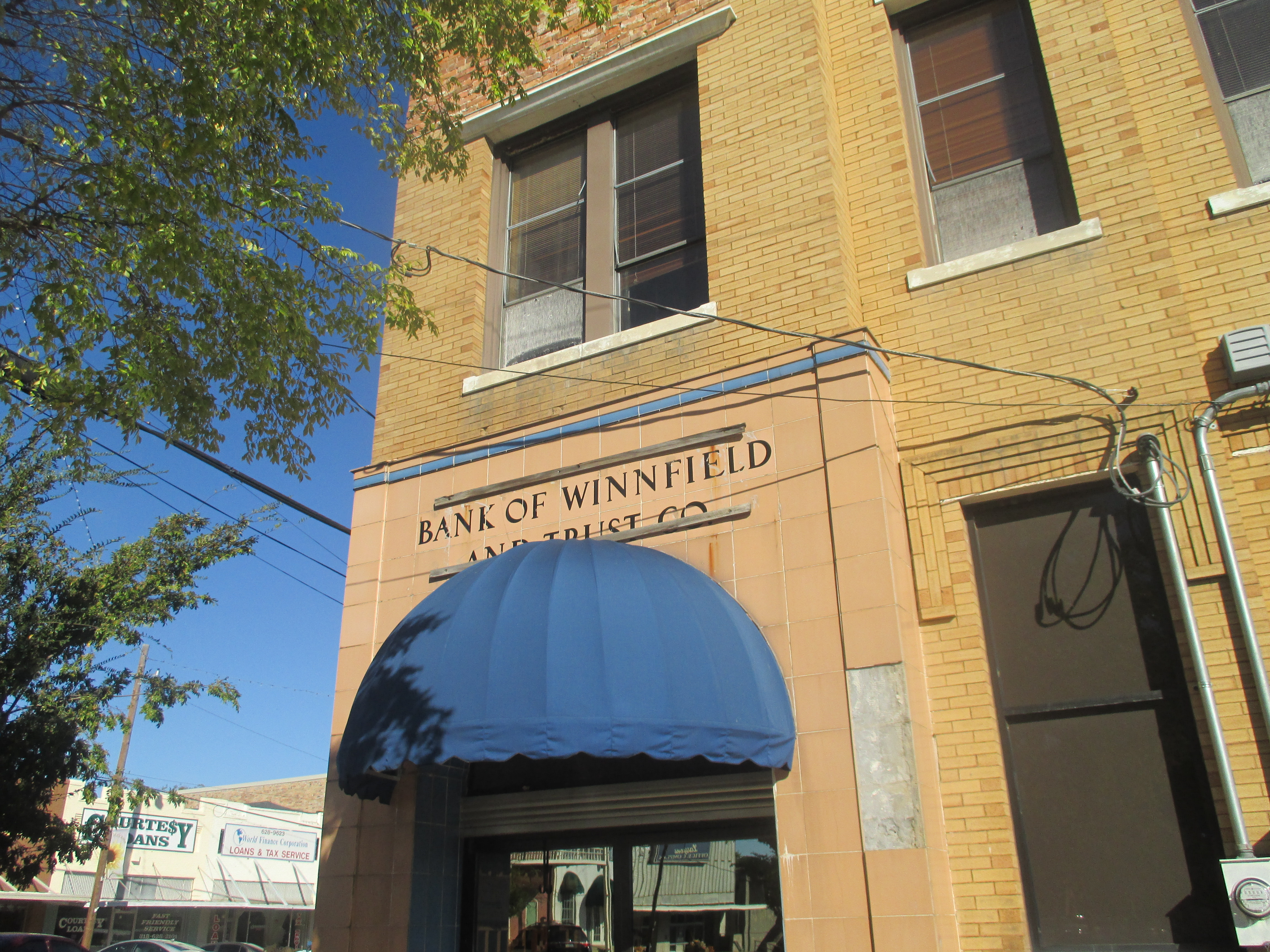 I took photo of Bank of Winnfield and Trust Co. in Winnfield, LA, with Canon camera.